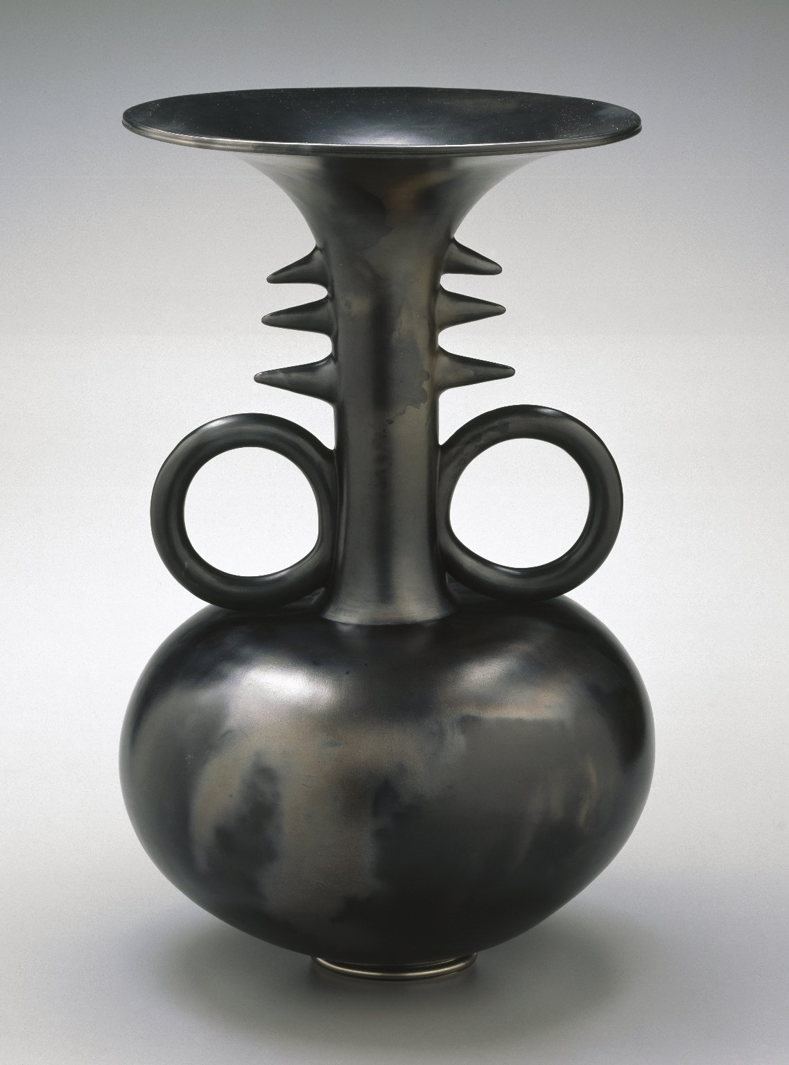 Black narrow-necked, symmentrical vessel made in 1990 by Magdalene Anyango N. Odundo who was born in Nairobi, Kenya (Luo, b.1950). Hand built vessel finished with a burnished slip and reduction-fired in a saggar to give a variegated black and orange-red surface. Condition: Excellent.